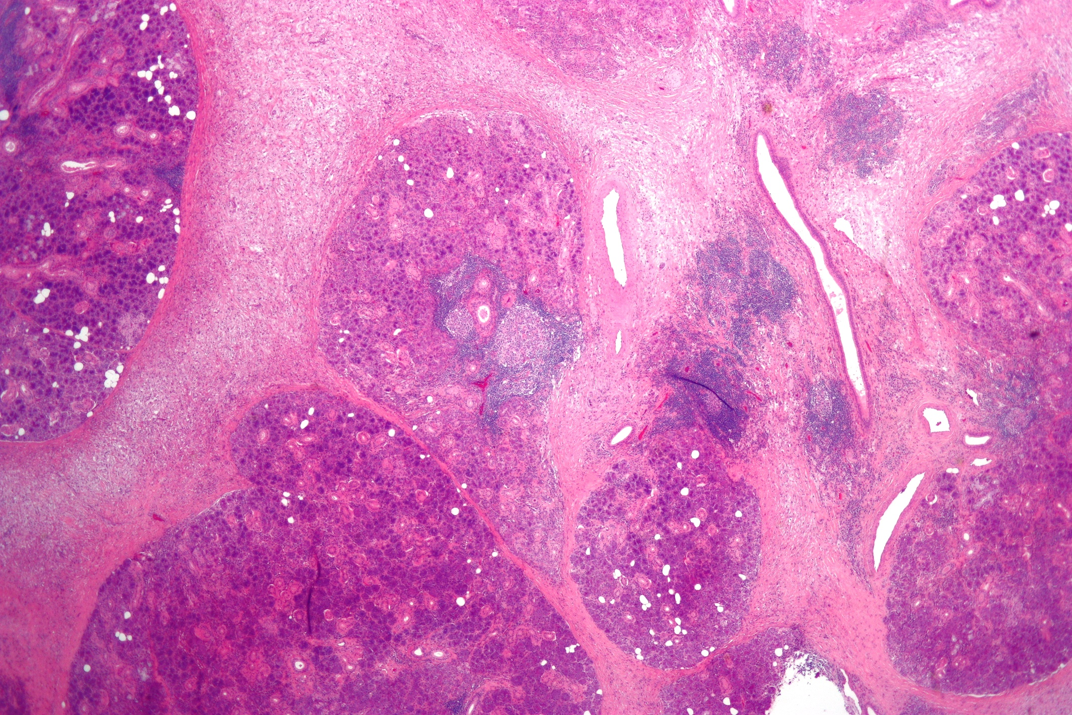 Micrograph of chronic sialadenitis, with a patchy lymphocytic infiltrate and fibrosis.